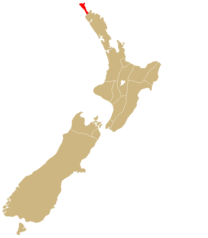 Tribal locator map of Te Aupōuri tribe